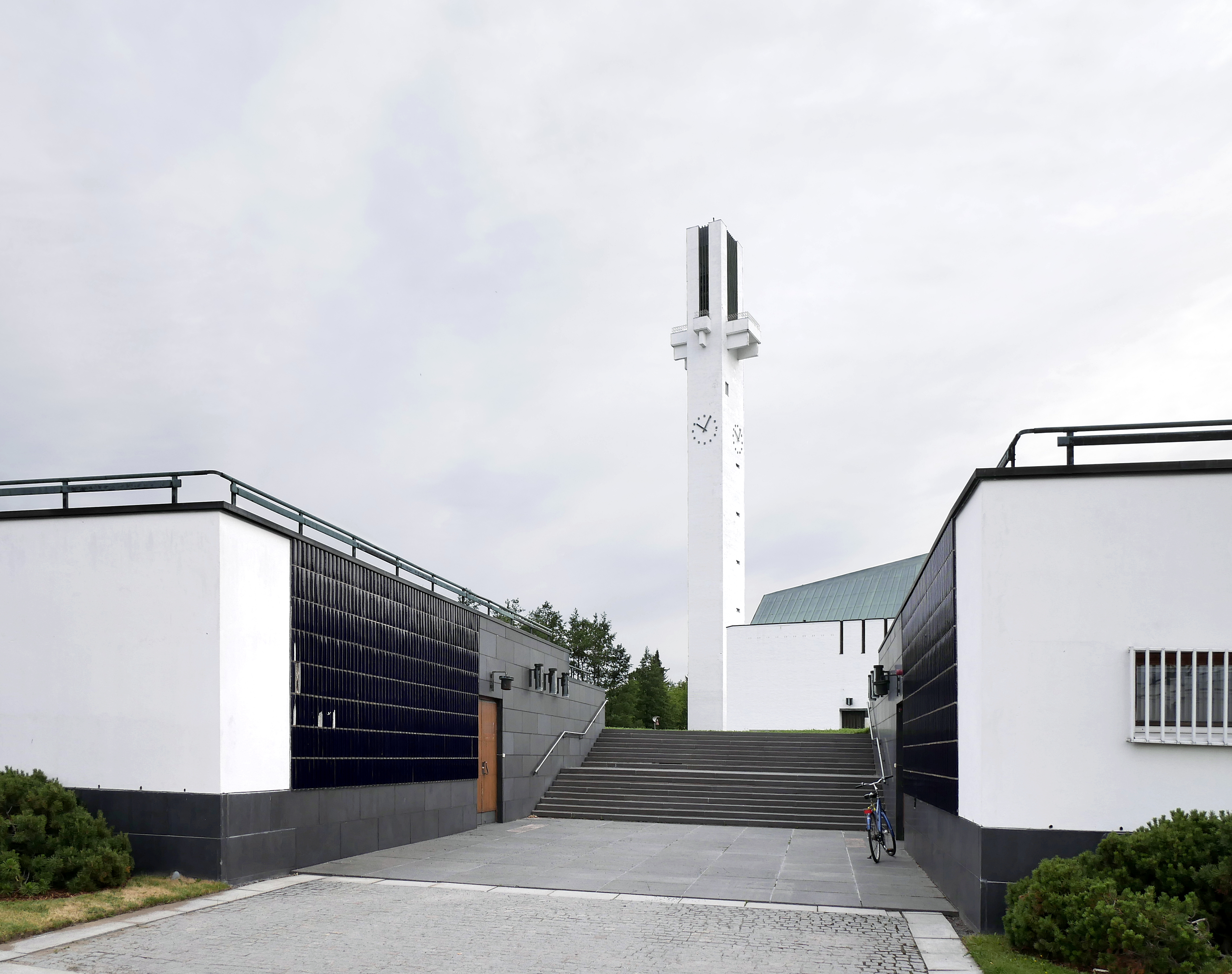 Lakeuden risti church in Seinäjoki, Finland.